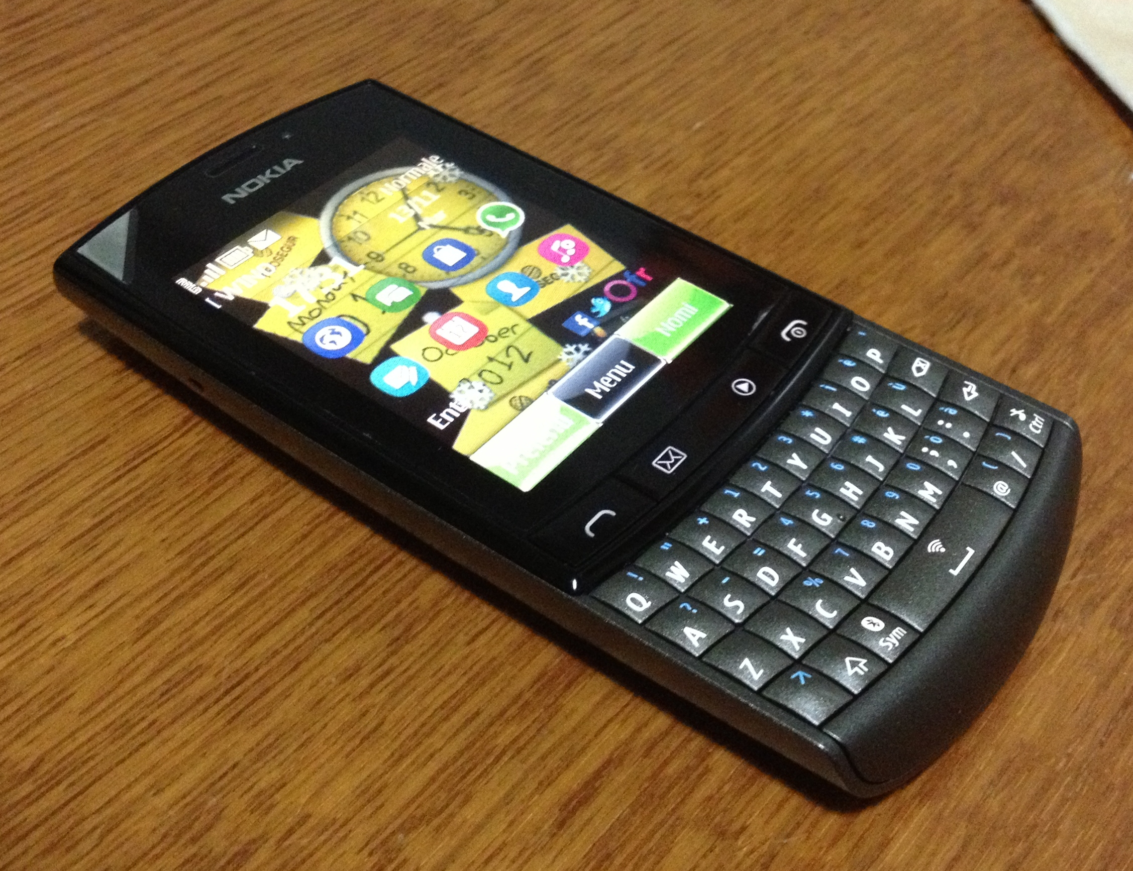 Nokia Asha 303 grey